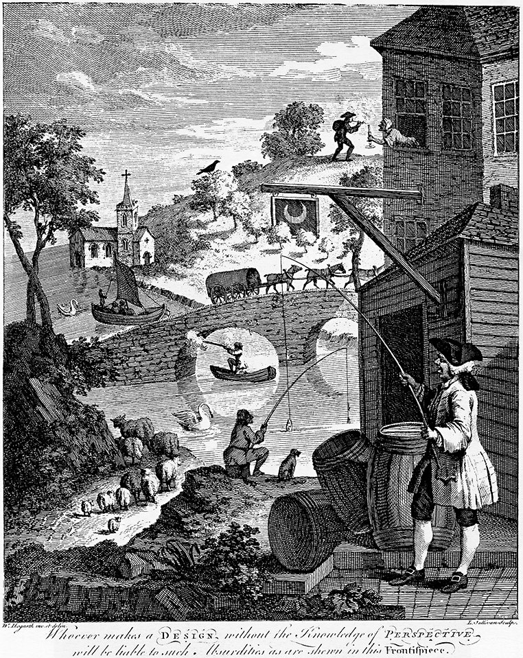 Satire on "False Perspective": Whoever makes a Design without the knowledge of Perspective will be liable to such absurdities as are shewn in this Frontispiece.